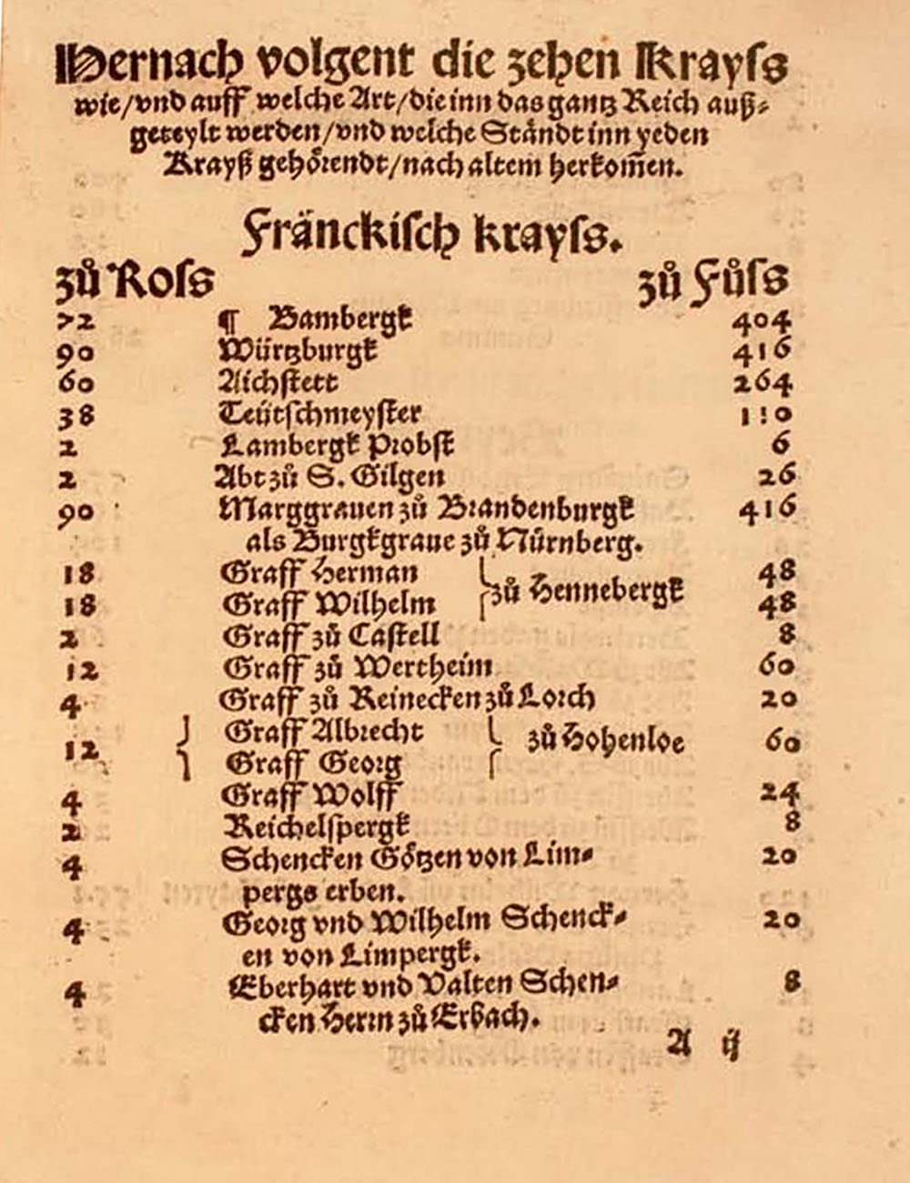 This is a scan of the historical document